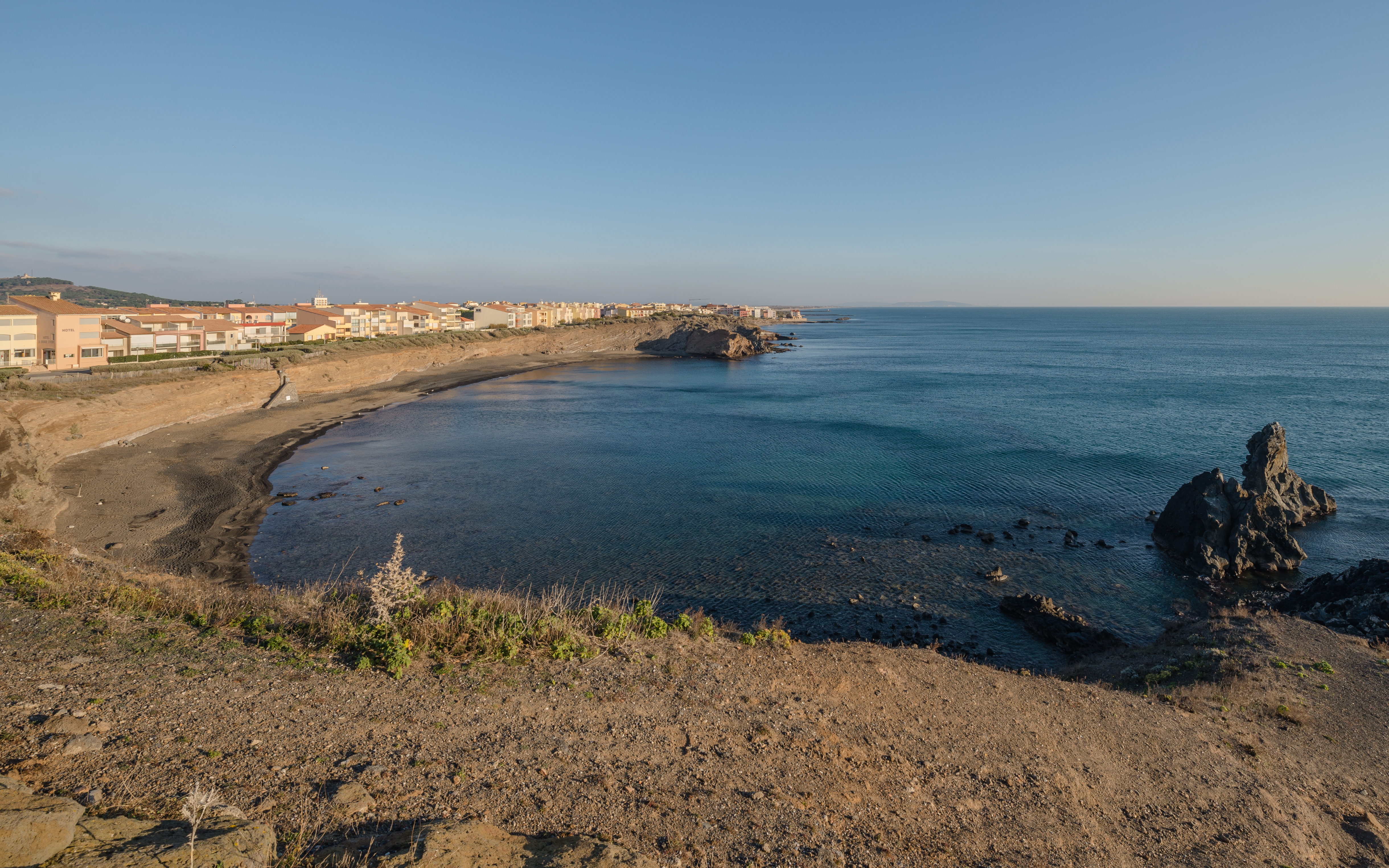 Grande Conque, a little cove maked by a former cinder cone the north side of which constitutes the cliff around the beach. Cap d'Agde, Agde, Hérault, France.